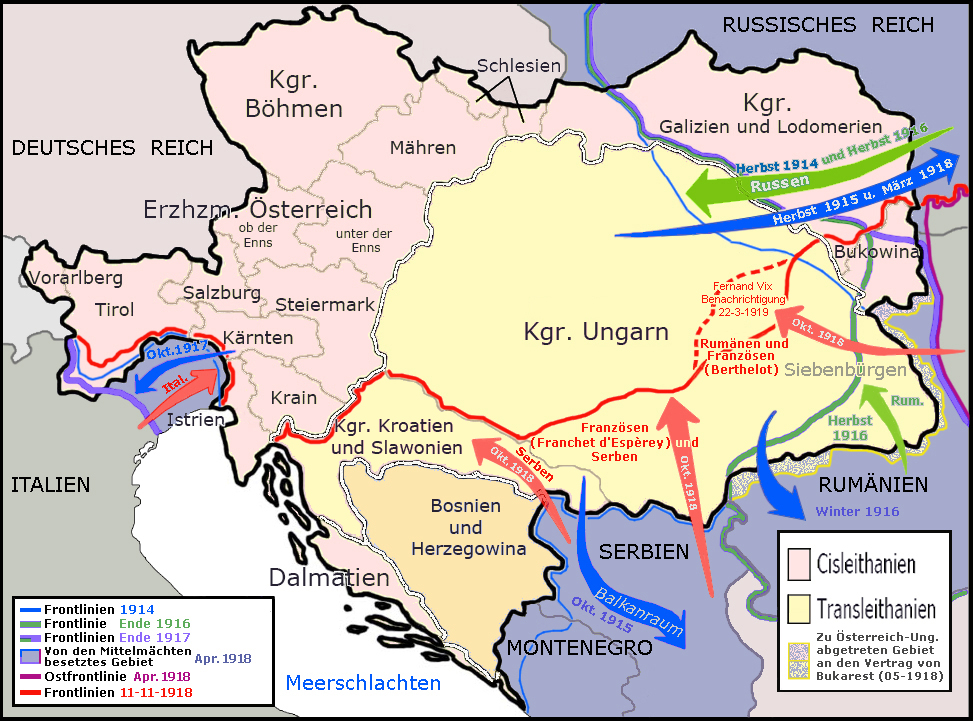 Austria-Hungary in W.W.1